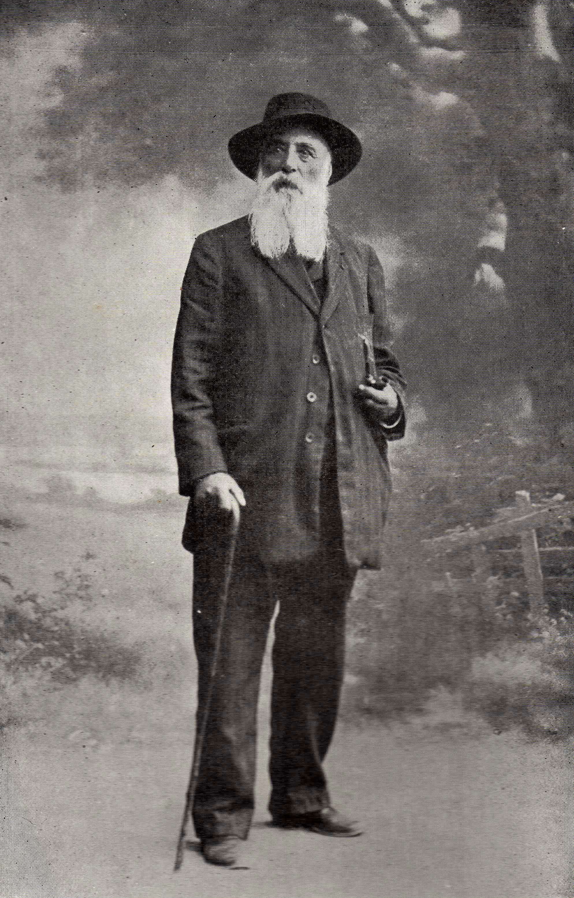 Portrait of the Occitan writer Pèire Pau Cambaròca